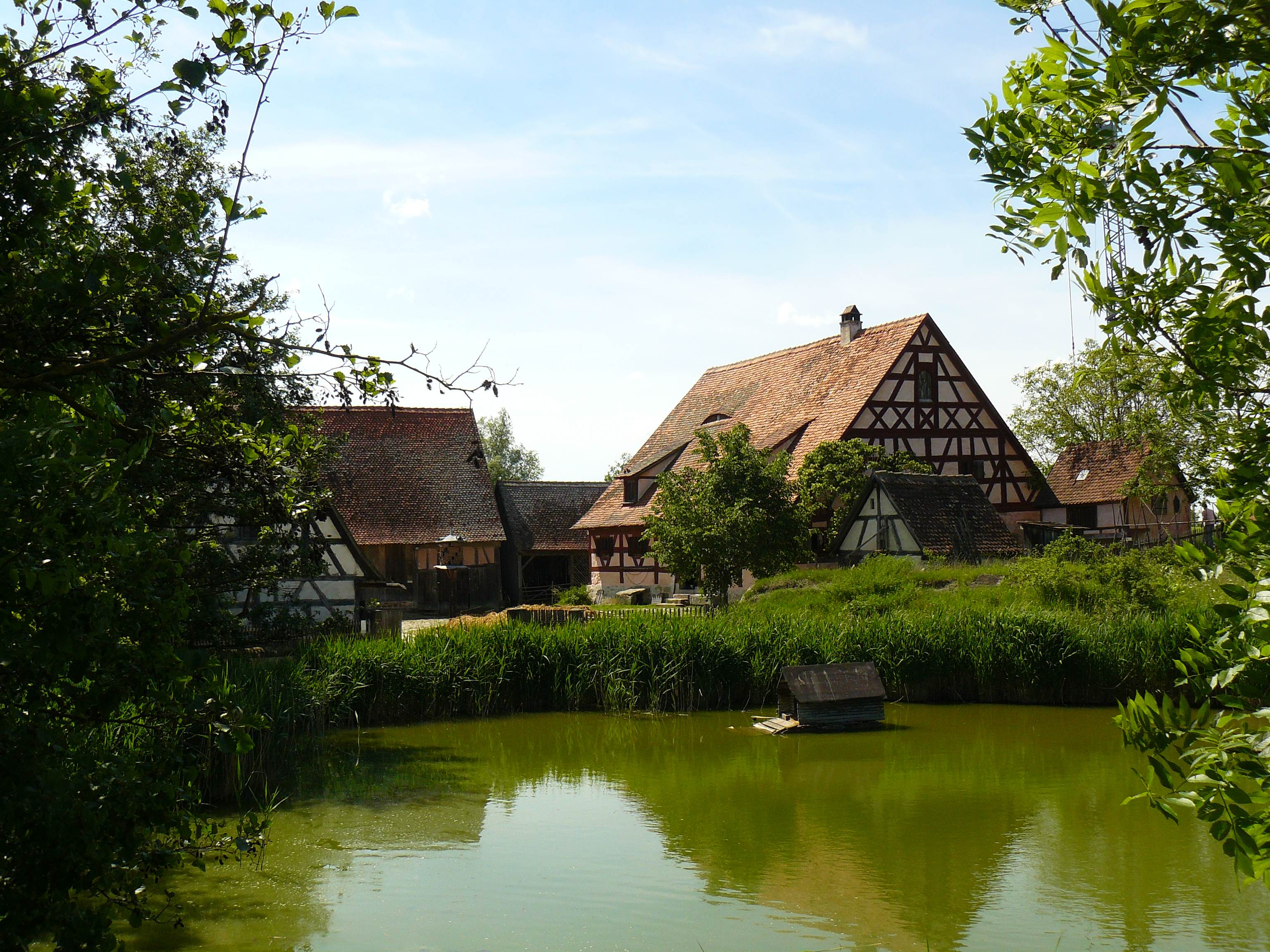 Fränkisches Freilandmuseum Bad Windsheim